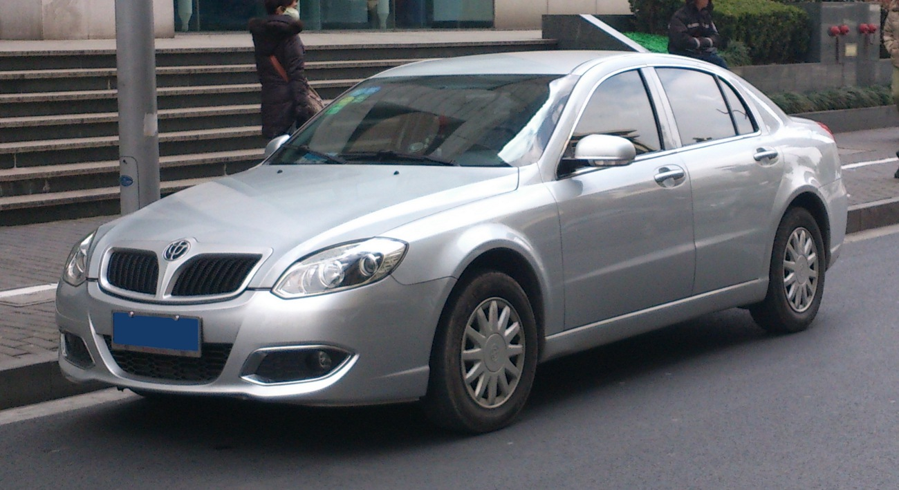 Brilliance Junjie facelift photographed in Shanghai, China.